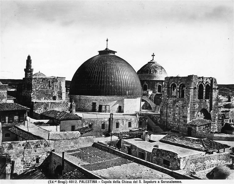 Giacomo Brogi (1822-1881) - "Palestine. Dome of the church of the Holy Sepulchre in Jerusalem". Catalogue # 4012.